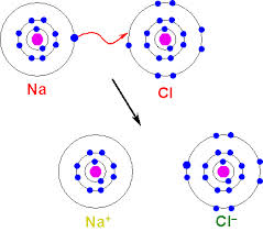 ionic bond